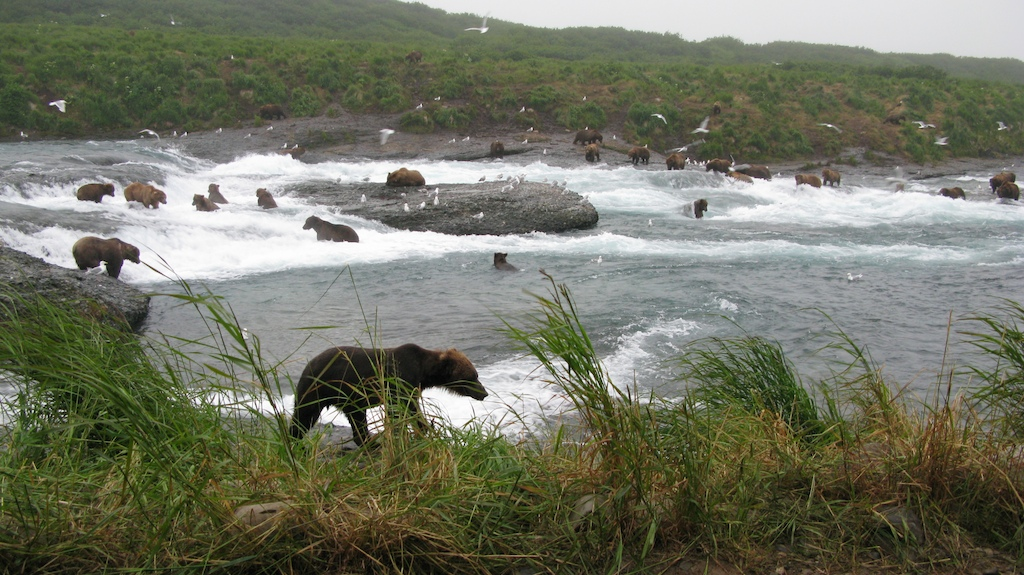 The number of bears at McNeil Falls can vary dramatically. Under the right conditions the most observed was 78